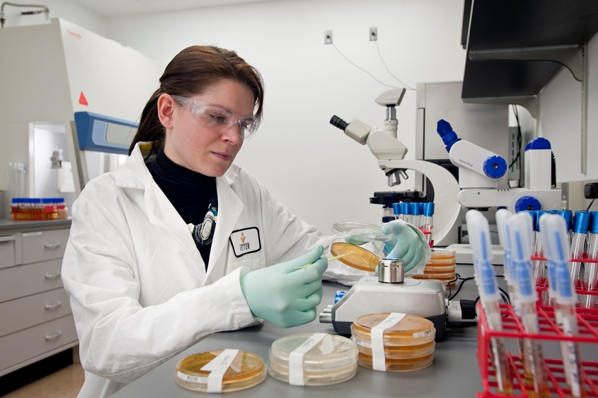 Inside the microbiology lab at VDS Chicago (Vetter Pharma)